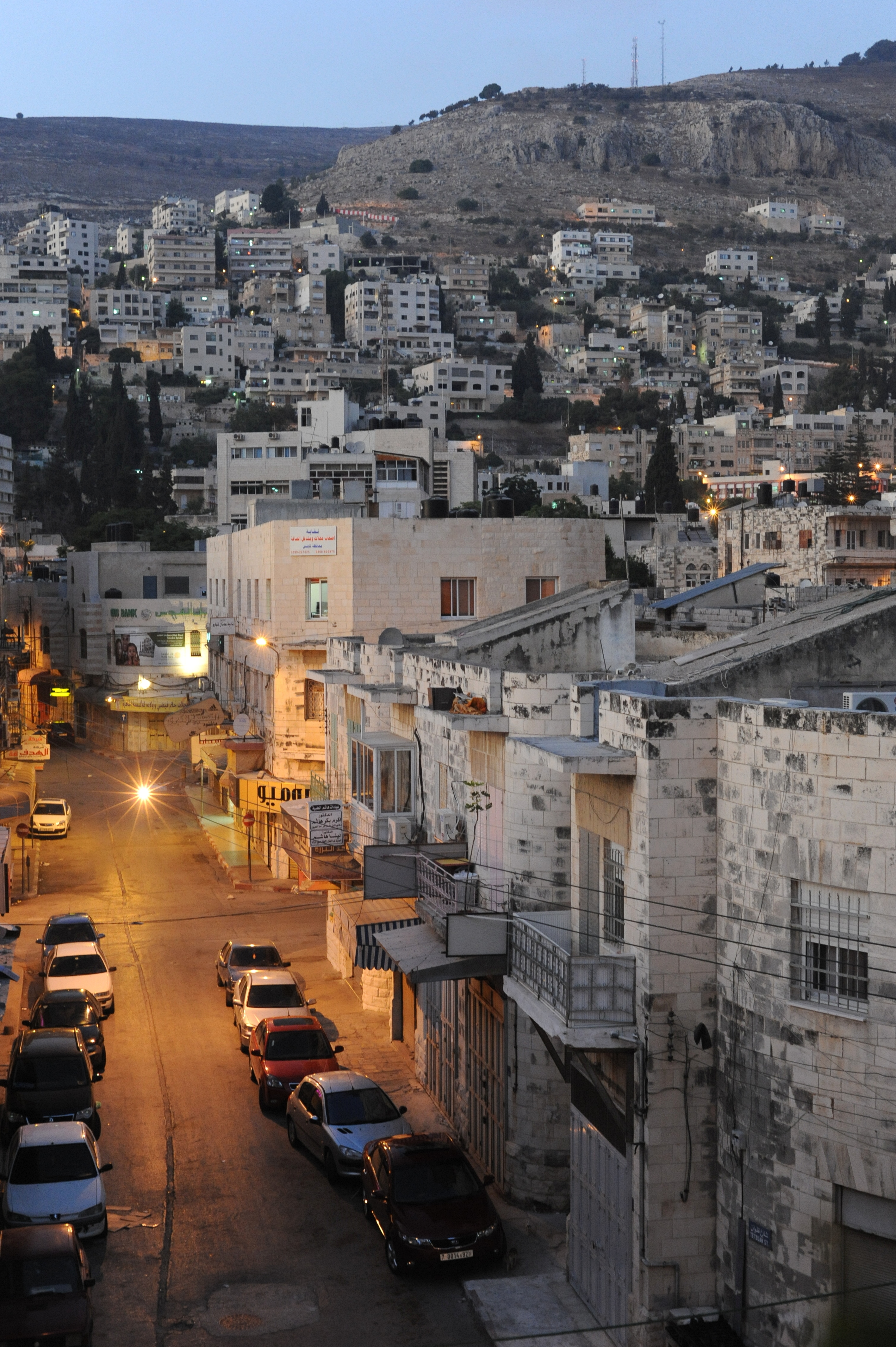 Streets of Nablus, West Bank, during evening twilight